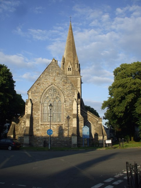 St John's Church, Canton, Cardiff